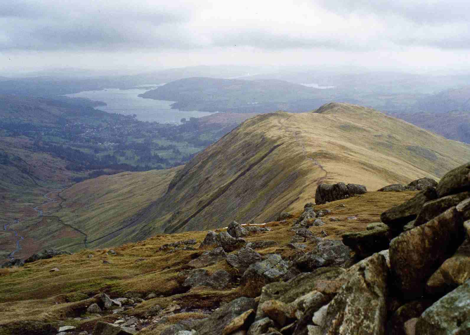 Heron Pike seen from Great Rigg, two kilometres to the north. Windermere is seen in the distance. Personal photograph taken by Mick Knapton in March 1994